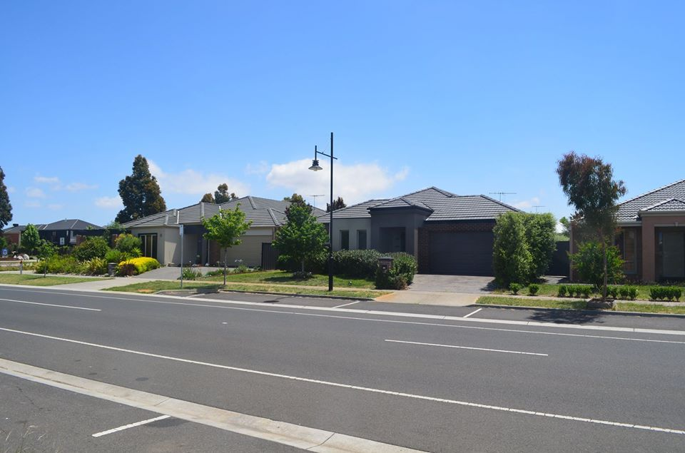 A typical Point Cook Home in 2015.